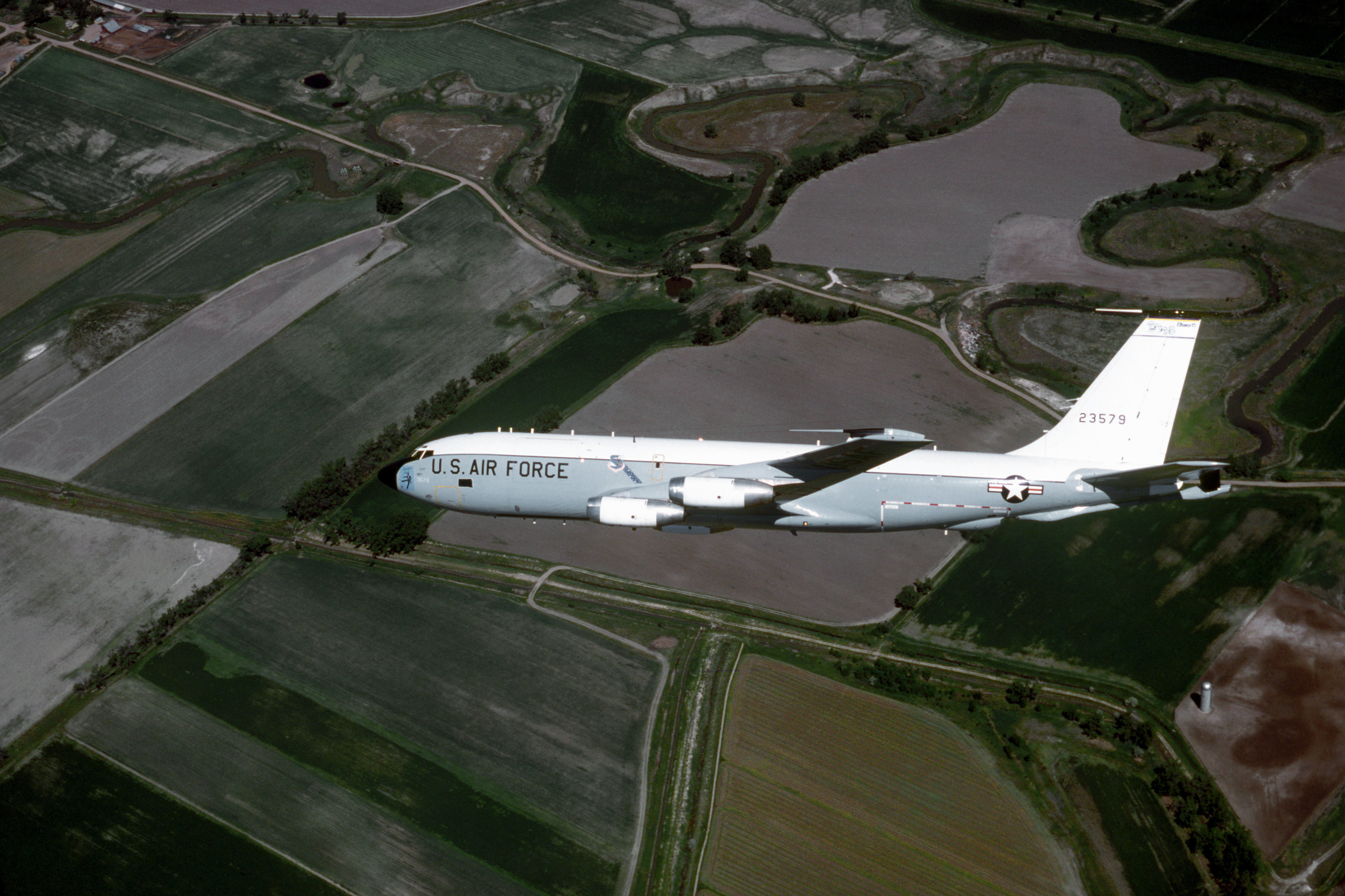 Boeing EC-135 (62-3579) Original caption: Air to air left side view of a 4th Air Command and Control Squadron EC-135 flying a training mission near its home base, Ellsworth AFB, South Dakota where it is based. Exact Date Shot Unknown.